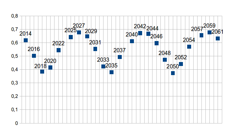 Distance (in a.u.) between Mars and Earth at the times of Mars oppositions. 2014-2061. Source of the data